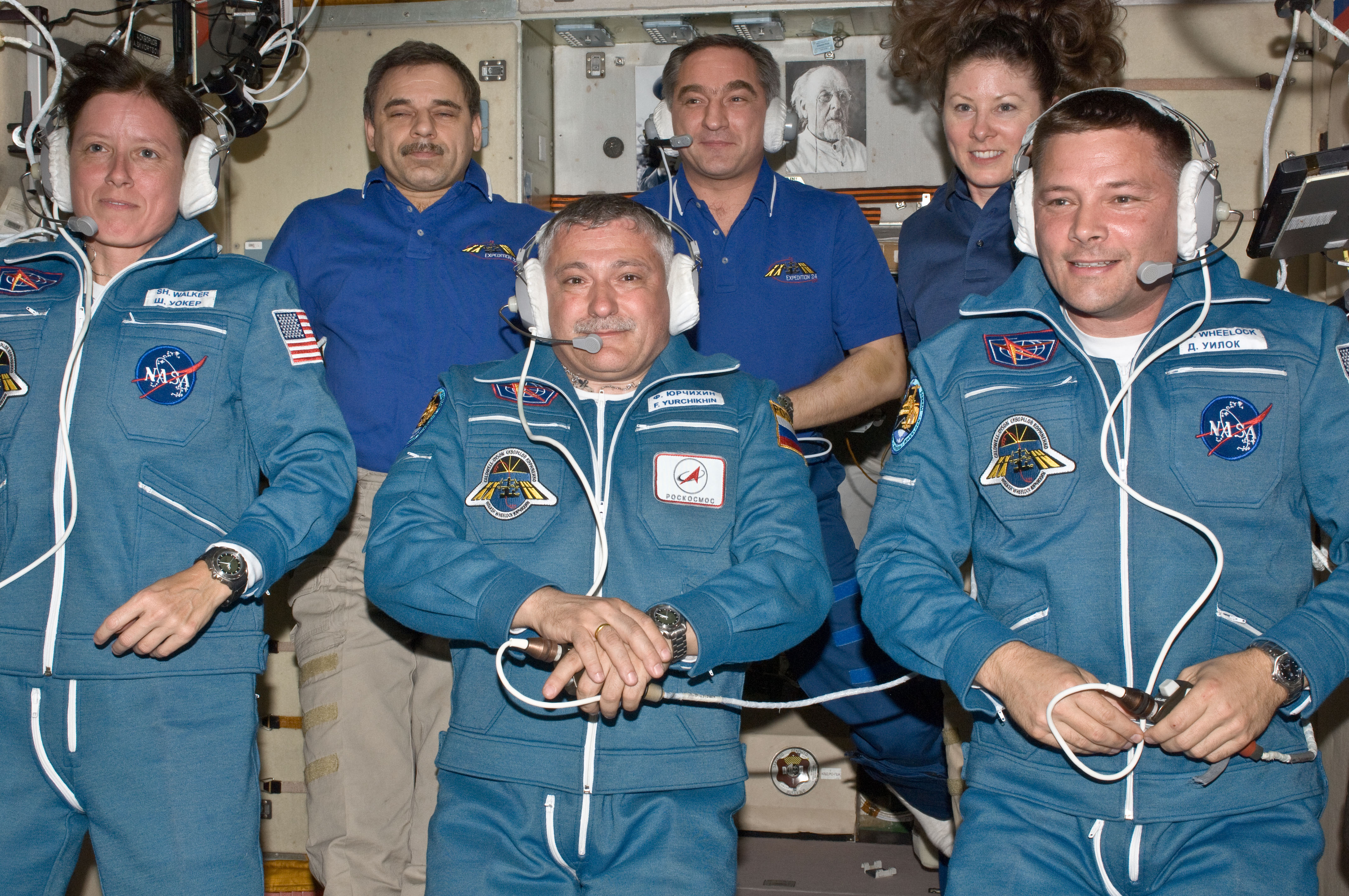 Expedition 24 crew members pose for a photo in the Zvezda Service Module of the International Space Station. Pictured on the front row are Russian cosmonaut Fyodor Yurchikhin (center); along with NASA astronauts Shannon Walker and Doug Wheelock, all flight engineers. Pictured on the back row are Russian cosmonaut Alexander Skvortsov (center), commander; along with NASA astronaut Tracy Caldwell Dyson and Russian cosmonaut Mikhail Kornienko, both flight engineers. The event happened shortly after Wheelock, Walker and Yurchikhin arrived in the Soyuz TMA-19 spacecraft.